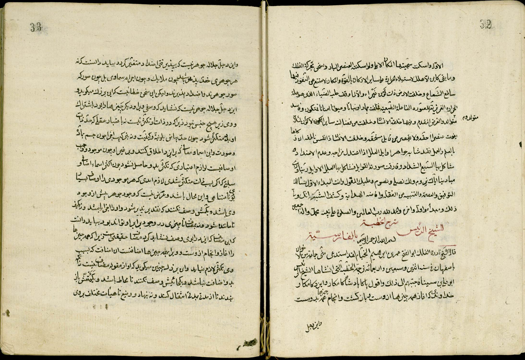 First page of Sharḥ al-Khuṭbah al-ghurrāʾ (Interpretation of Avicenna's "al-Khuṭbah al-ghurrāʾ" or "Al-Khutbat al-Tawhīd" by Khayyam in persian), Digital library of Caro Minasian.